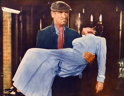 Cropped and edited lobby card featuring John Dierkes and Molly McCard in The Daughter of Dr Jekyll (Allied Artists, 1957). Image is assumed to be in the public domain as no copyright notice has been attached.